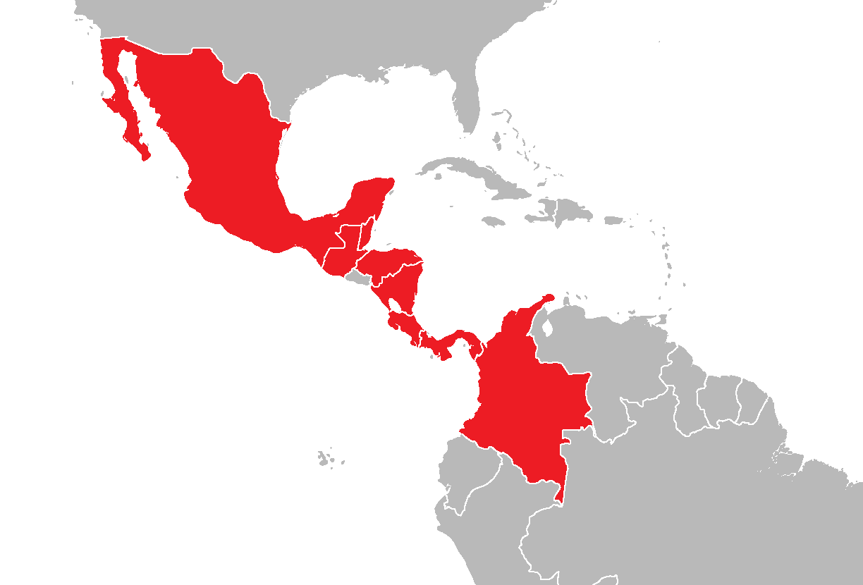 Agalychnis callidryas distribution. Nations only, not an exact distribution map!